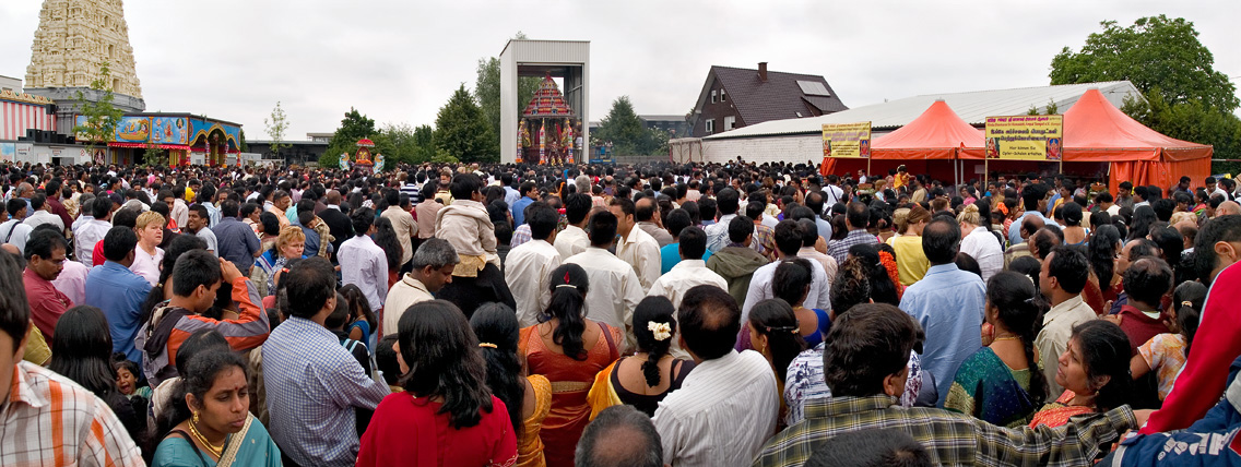 Sri Kamadchi Ampal temple festival, Hamm/Uentrop, Germany Impressions from the temple festival (slide show)